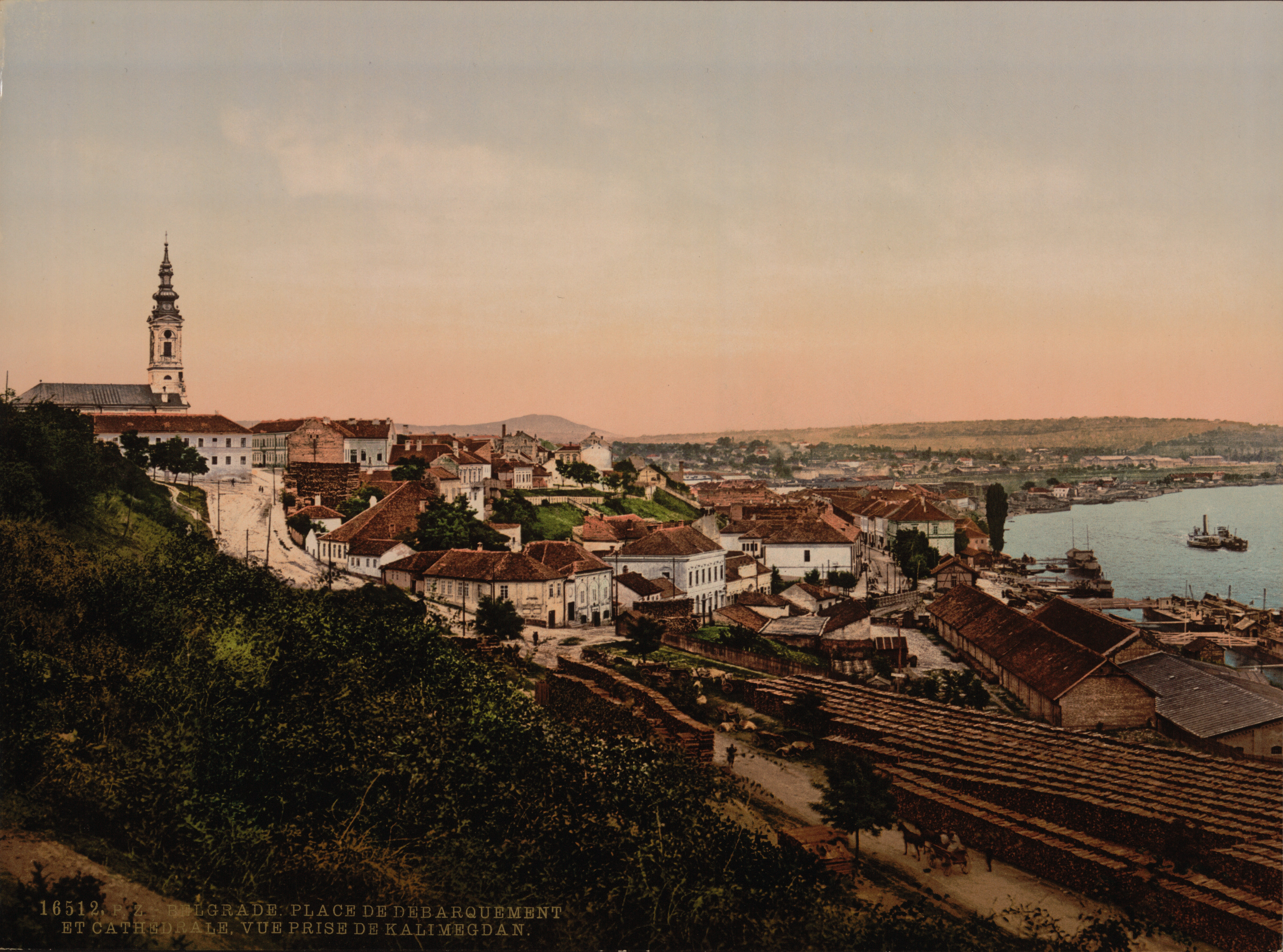 Cathedral & Landing Place, Belgrade, Serbia - 1890